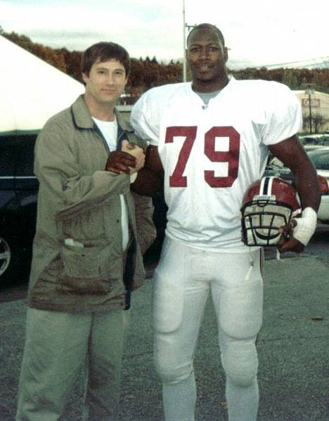 Actor Eric Bruno Borgman and Jamal Duff (on right). I took this picture, in 2006, on the set of the Disney film The Game Plan which stars Dwayne Johnson.